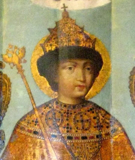 Mandylion with tsar Feodor III. Authors - Ivan Bezmin with students, 1686